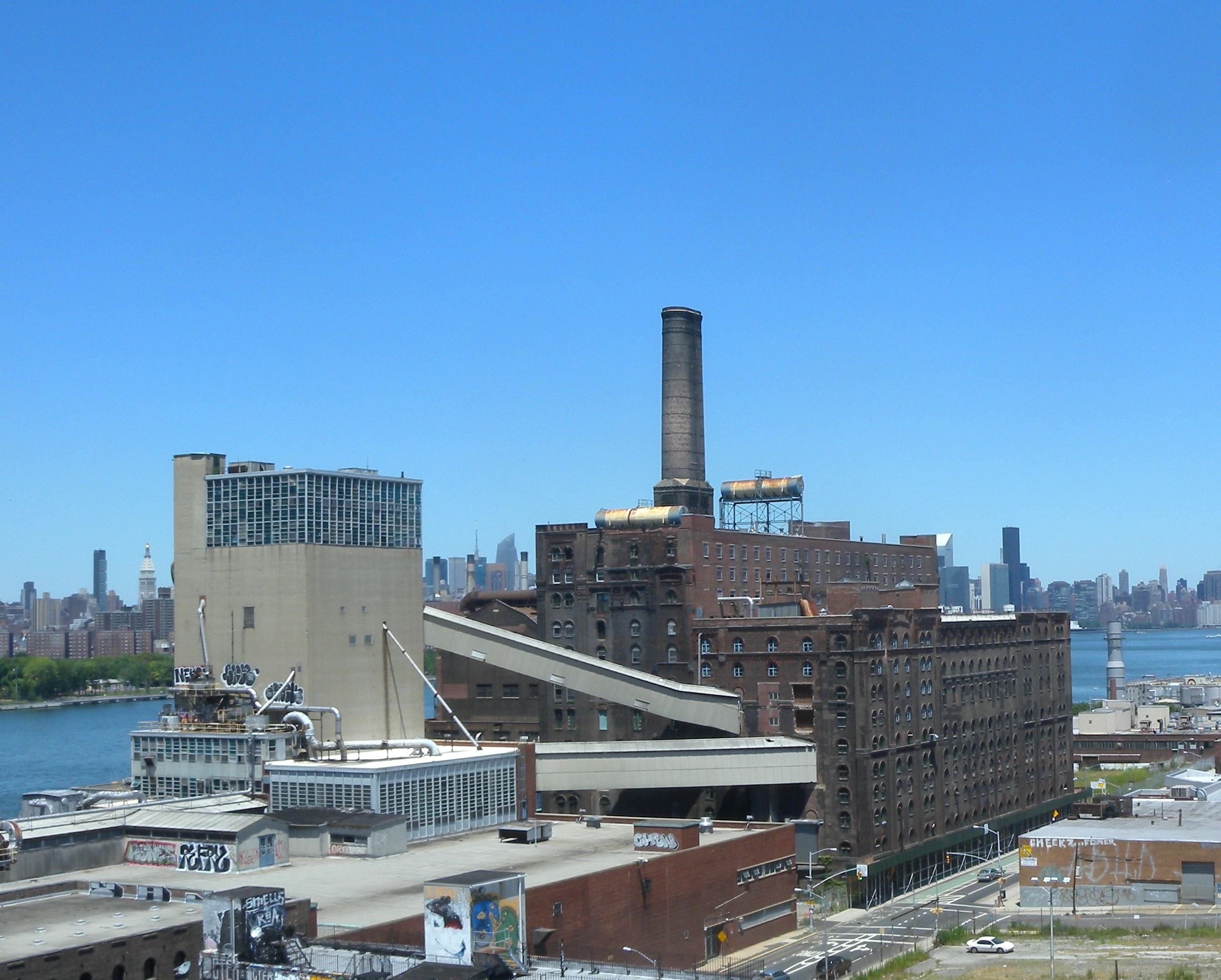 Looking north from upper end of approach ramp of Williamsburg Bridge, at Domino factory on a sunny midday.